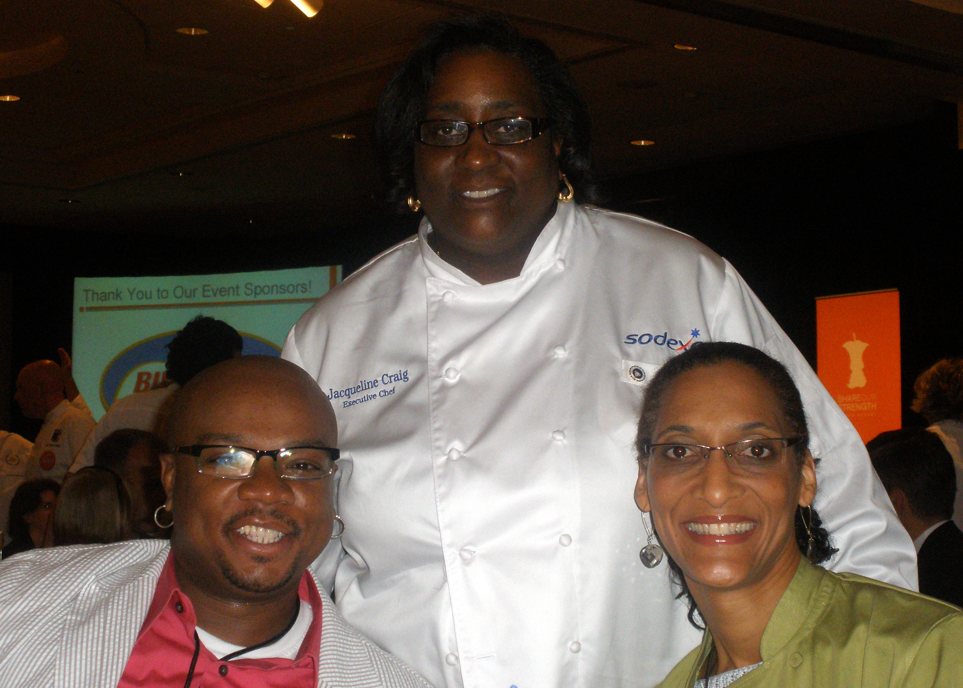 Aaron McCargo, Jr., Jackie Craig & Carla Hall